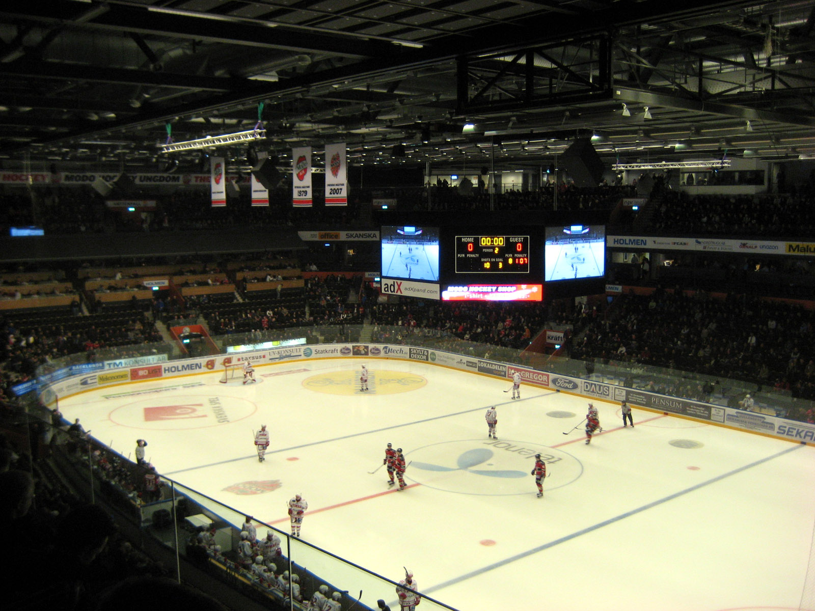 Inside Swedbank Arena in Örnsköldsvik, Sweden during the Swedish Elite League game Modo Hockey-Timrå IK (2-0)